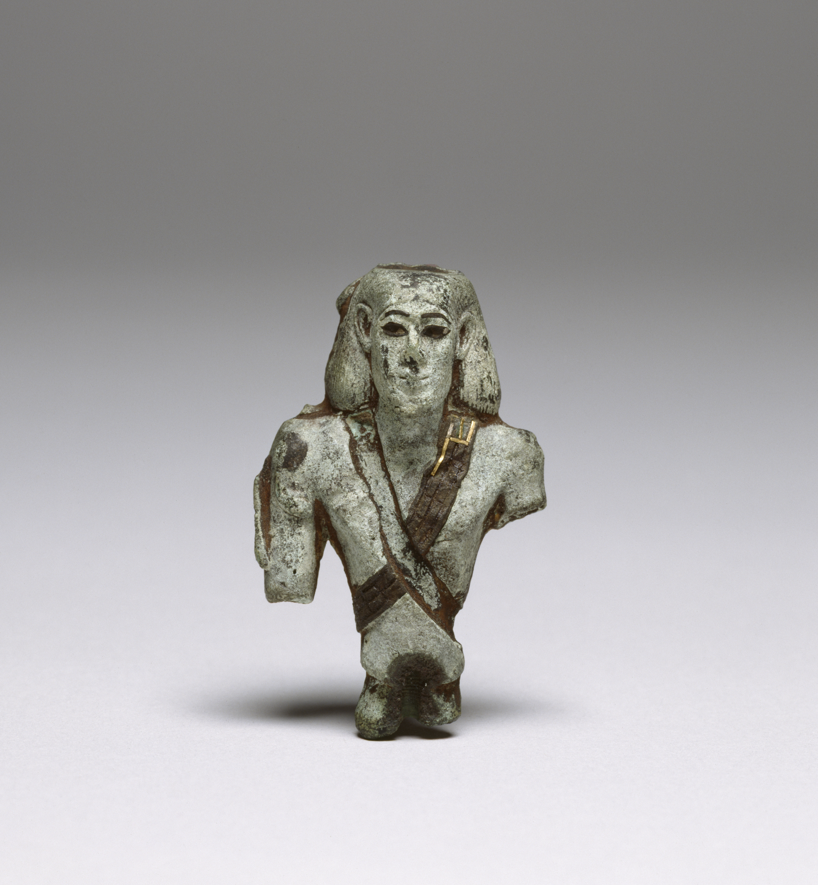 The small precious appliqué was probably attached to an object related to the responsibility of the king to control/smite foreign enemies. Egyptians developed iconographical standards for the depiction of enemies from the surrounding countries. In this case, the bands crossed over the chest, the long hair (which originally had a side-lock), and the short beard identify the enemy as a Libyan.